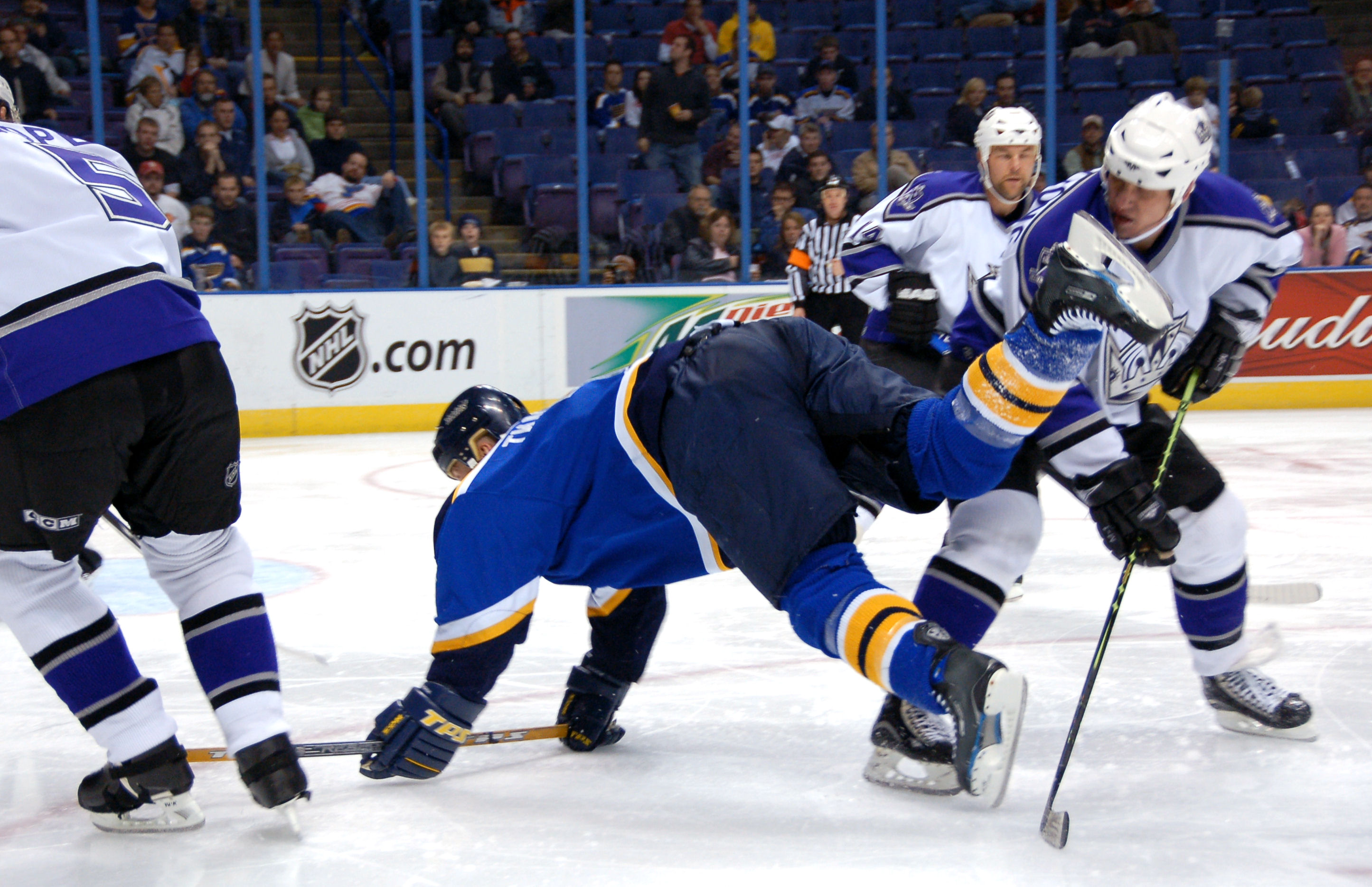 KEITH TKACHUK of the St. Louis Blues sent flying by DEREK ARMSTRONG of the L.A. Kings